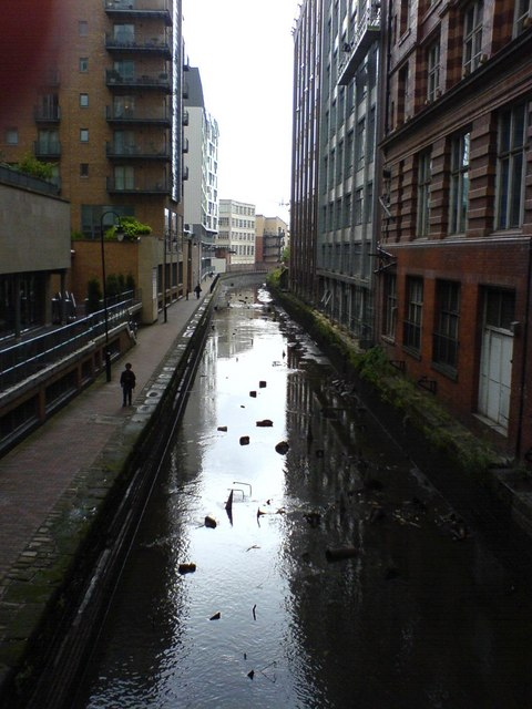 Rochdale canal before clean up Rochdale canal, part of the Cheshire ring, taken from Oxford Street bridge, just north of Oxford Road station. On the left are modern apartments above retail premises (including a compact Sainsburys) which front onto Whitworth Street, part of the massive urban renewal in and around central Manchester in the first decade of the 21st century. On the right are office buildings constructed in the first half of the 20th century. The canal, railway and Mancunian Way (inner city motorway) all closely follow the valley of the River Medlock around the southern edge of the city centre. The river itself flows under a bridge immediately south of the railway, which crosses Oxford Street above the river.